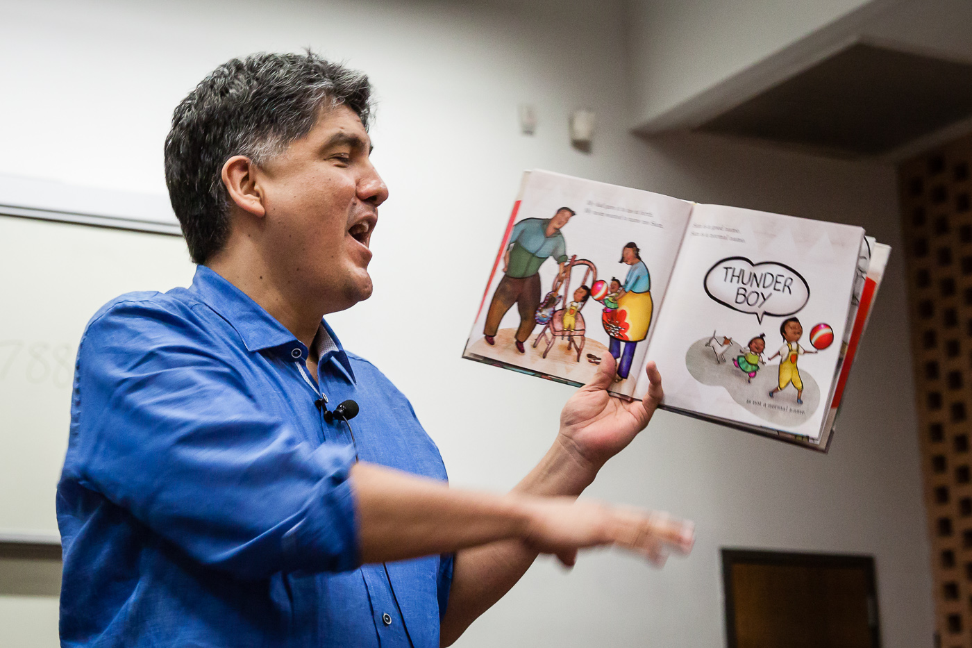 We celebrated the inaugural issue of “RED INK International Journal of Indigenous Literature, Art, and Humanities” with National Book Award-winner Sherman Alexie, a Spokane-Coeur de Alene poet, filmmaker, and novelist. Alexie gave a talk and then read from and sign copies of his books, which were available for sale at the event by Phoenix Book Company. Alexie has published 24 books including "What I've Stolen, What I've Earned," "Blasphemy: New and Selected Stories," "The Absolutely True Diary of a Part-Time Indian," and a 20th Anniversary edition of his classic book of stories, "The Lone Ranger and Tonto Fistfight in Heaven." "Smoke Signals," the movie he wrote and co-produced, won the Audience Award and Filmmakers Trophy at the 1998 Sundance Film Festival. Alexie's visit was hosted by the ASU RED INK Indigenous Initiative for All: Collaboration and Creativity at Work, with support from ASU's American Indian Studies, Department of English, College of Liberal Arts and Sciences, and Center for Indian Education. April 22, 2016 ASU Tempe campus